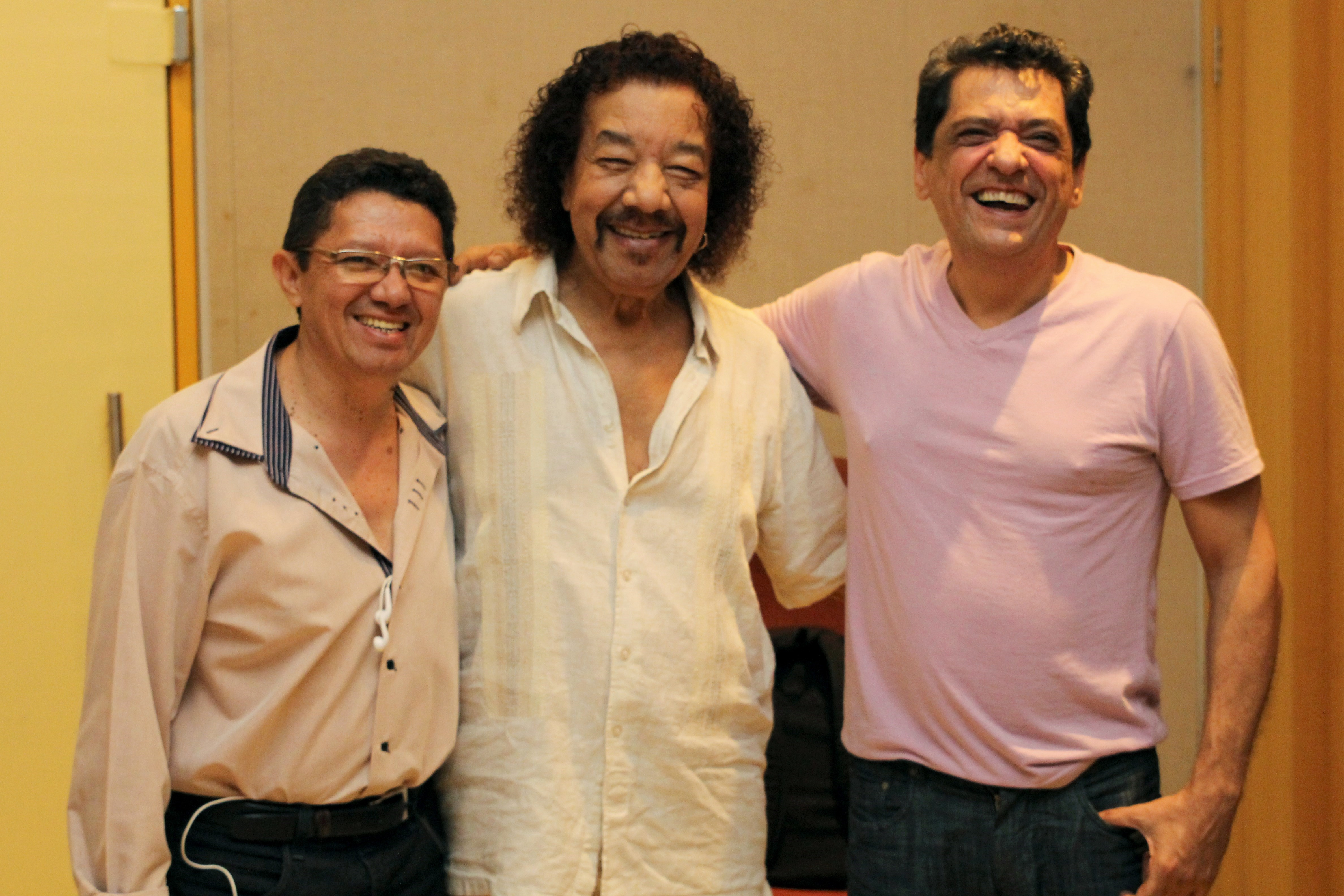 Entre Notas session - Carlinhos Patriolino, Raul de Souza & Tito Freitas (from left to right)